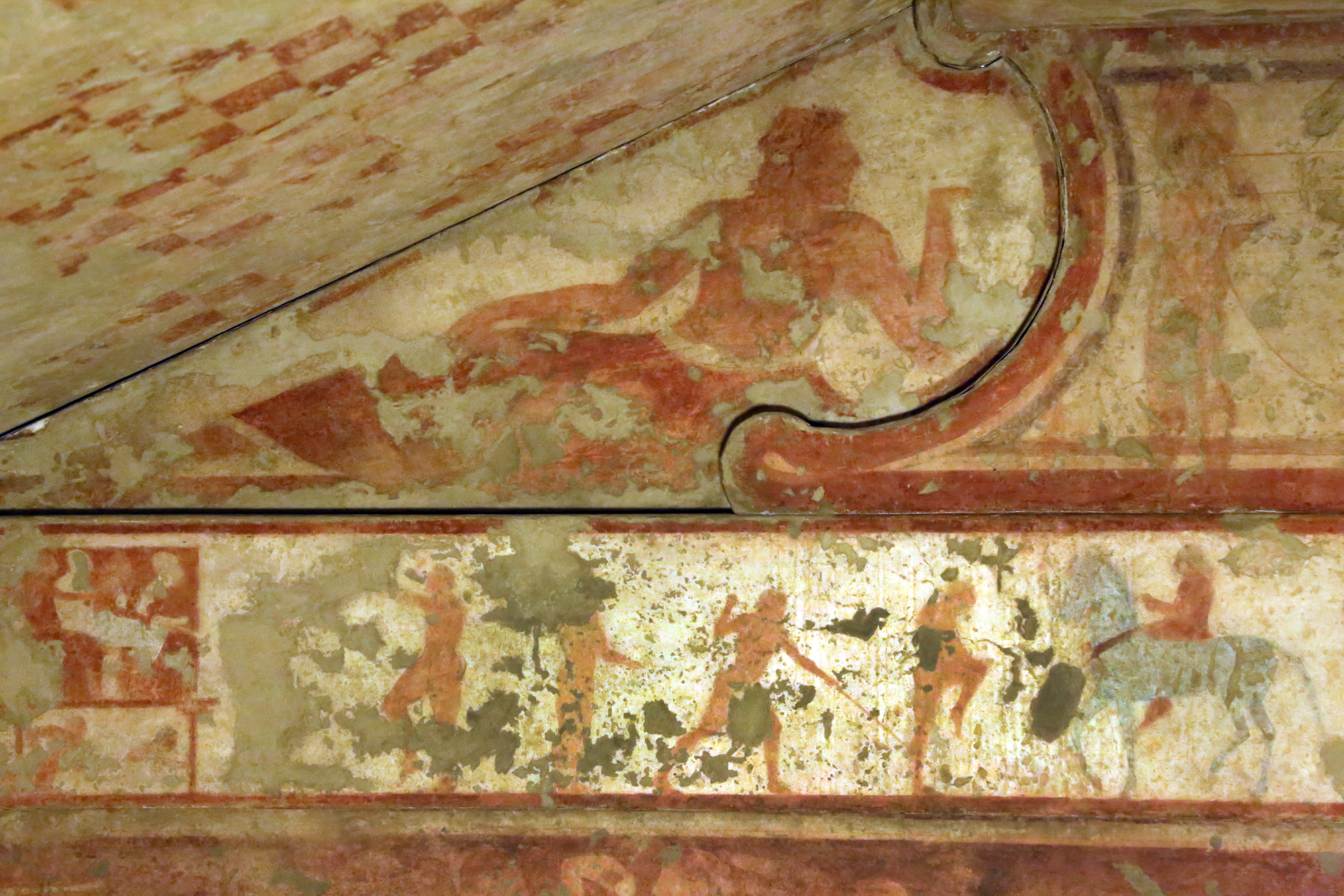 Etruscan antiquities the Museo archeologico nazionale (Tarquinia)